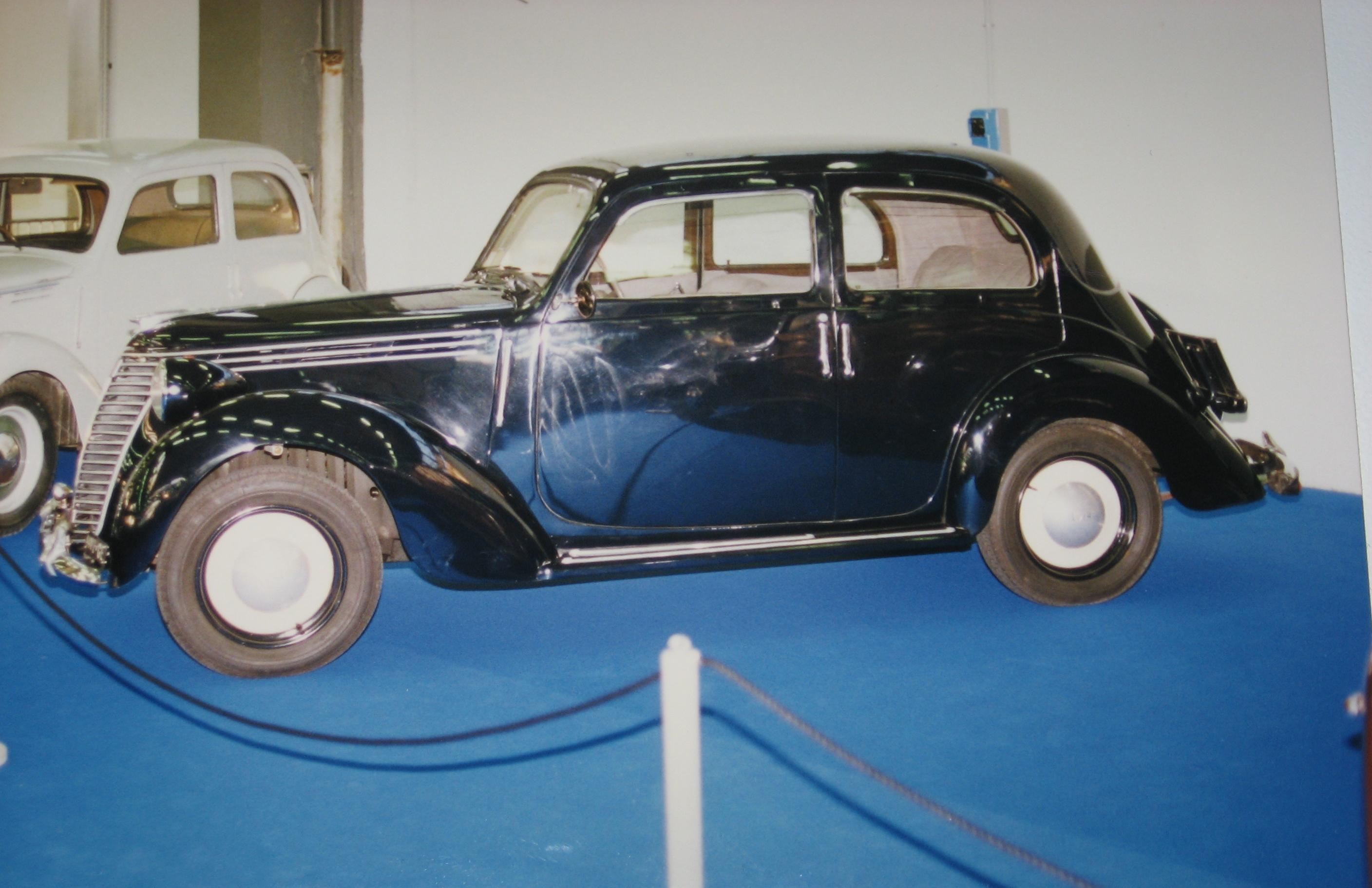 Subject: Fiat 1100 A (1939) Author: Luc106 Date: February, 1996 City/Country: Genoa, Italy Event: Autostory I release all rights in the public domain